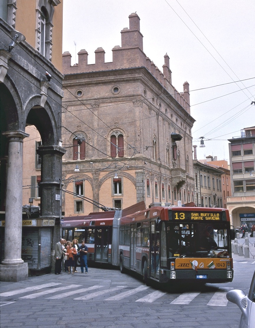 In Bologna, Italy, a trolleybus turns from Via Rizzoli into Piazza della Mercanzia, in the historic city centre. Trolleybus 1043 was built in 1999 by Modena-based Autodromo (Carrozzeria Autodromo Modena), on an MAN chassis. It is in service on route 13 to San Ruffillo.